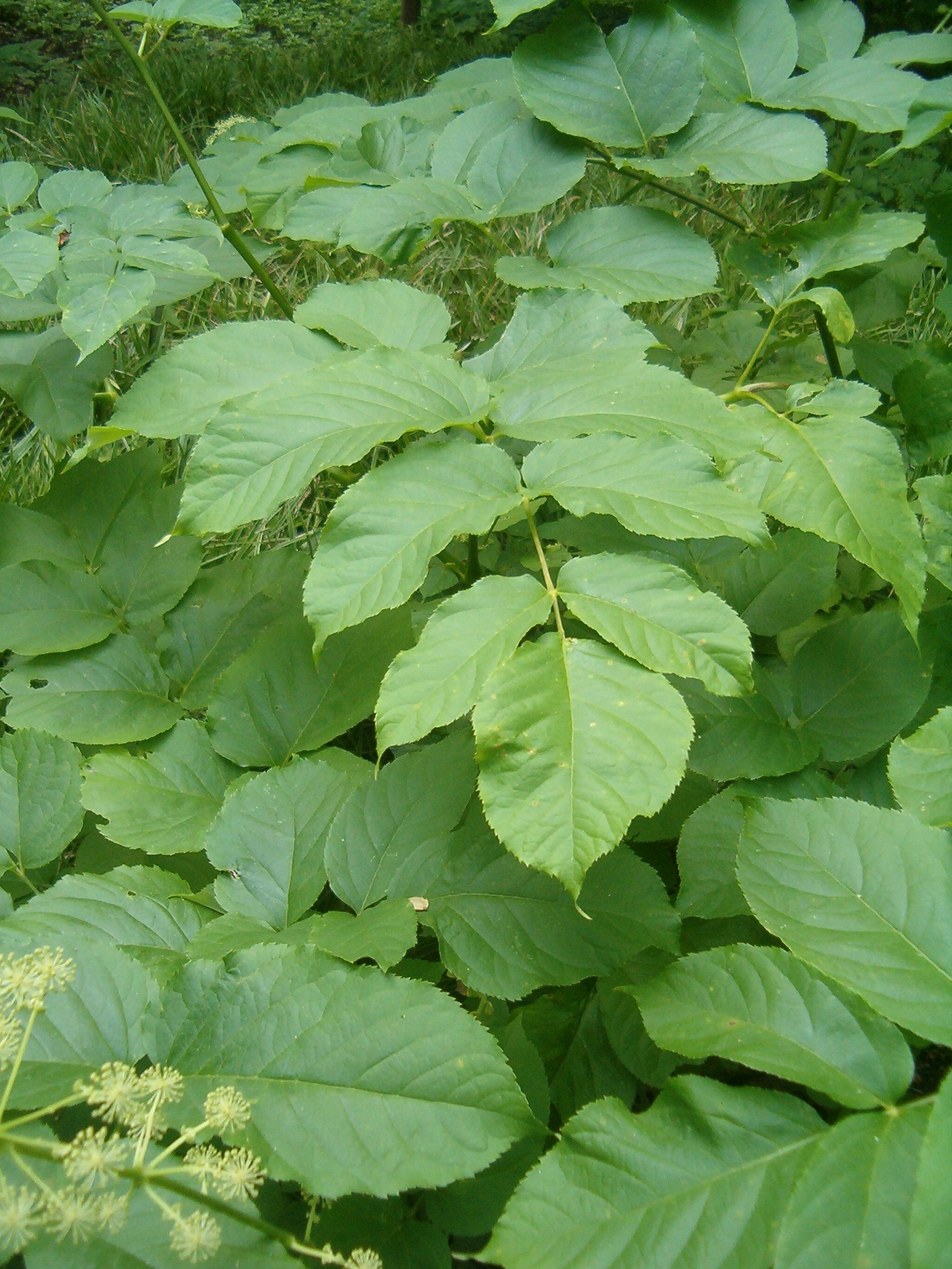 At Botanical Gardens Berlin-Dahlem Species Aralia cordata